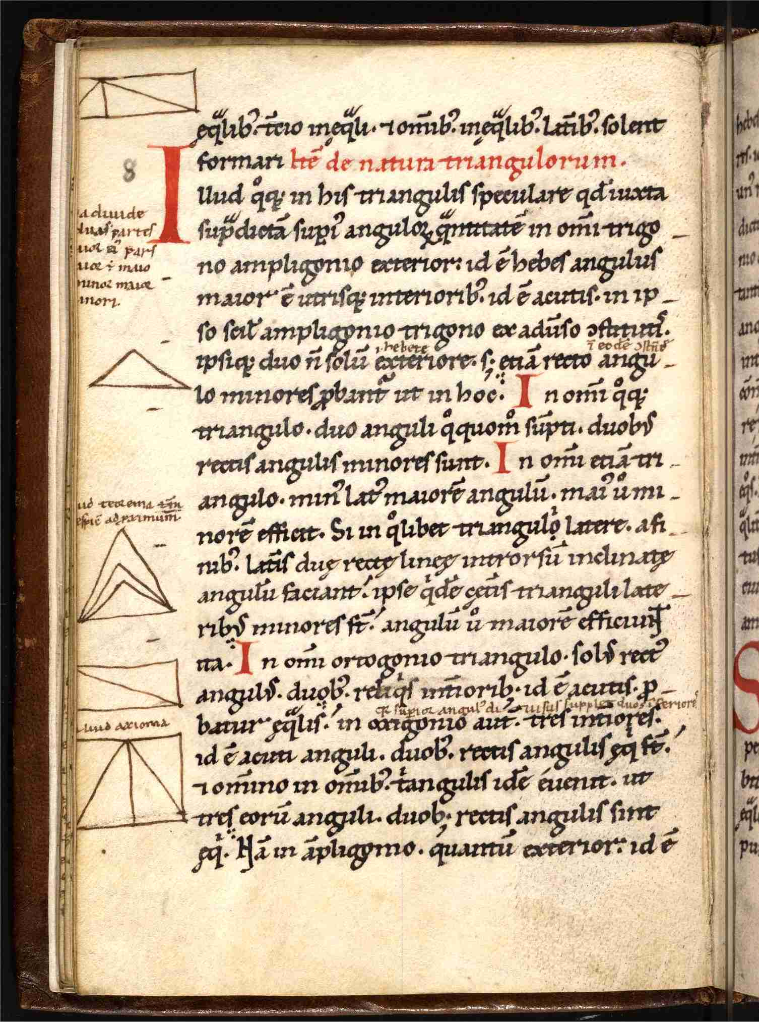 Geometriae Isagoge, fol 12v, Treaty on the geometry of Gerbert of Aurillac, Bavaria 12th century. Schoenberg collection. Manuscript scanned at